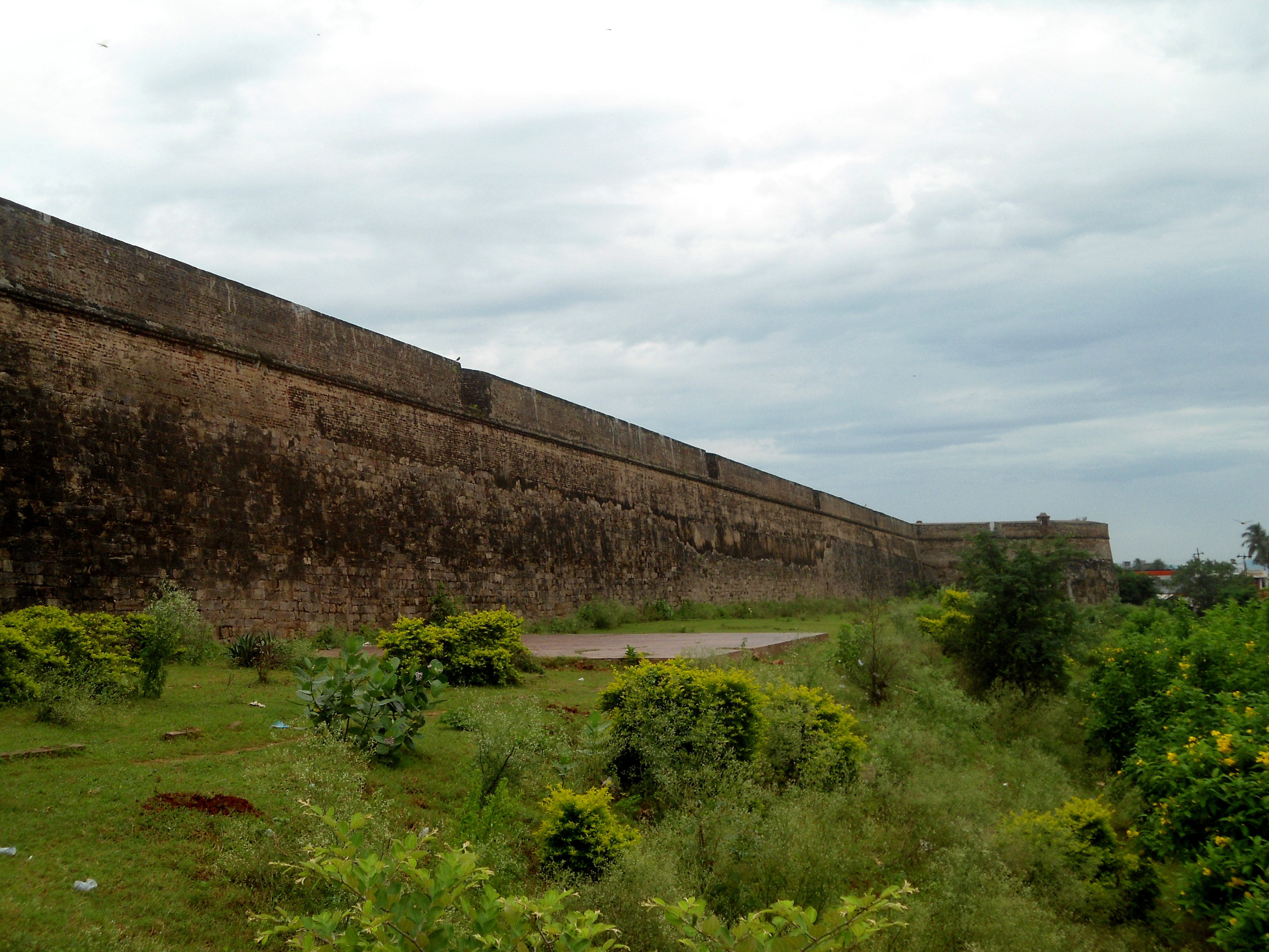 Vizianagaram fort in Andhra Pradesh